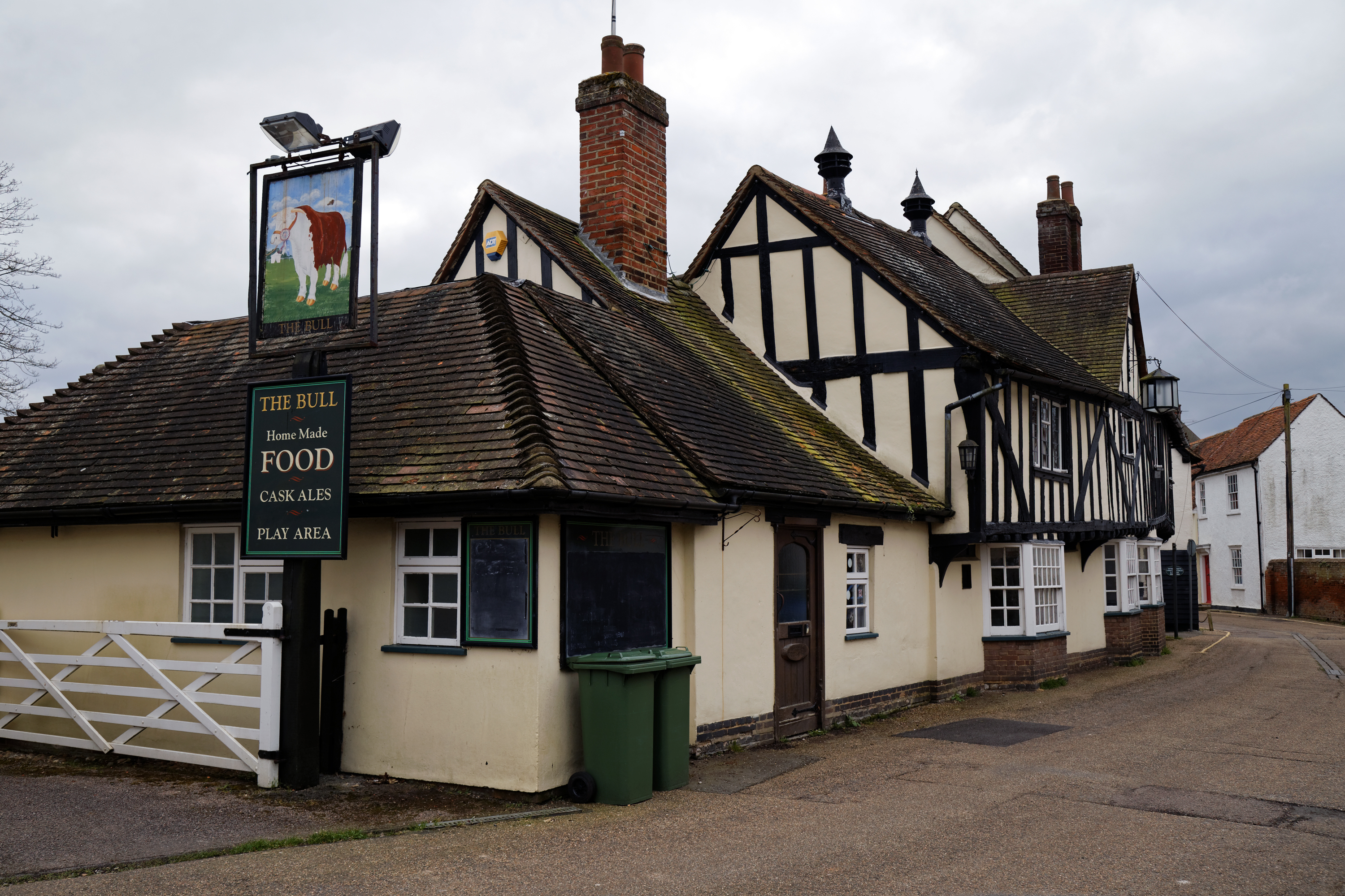 'The Bull' Grade II listed 15th-century public house on Church Street at Blackmore, Essex, England. According to the St Laurence Church guide book, there has been a pub on this site since c.1385.Camera: Canon EOS 6D with Canon EF 24-105mm F4L IS USM lens.Software: large RAW file lens-corrected, optimized and downsized with DxO OpticsPro 10 Elite, Viewpoint 2, and Adobe Photoshop CS2.